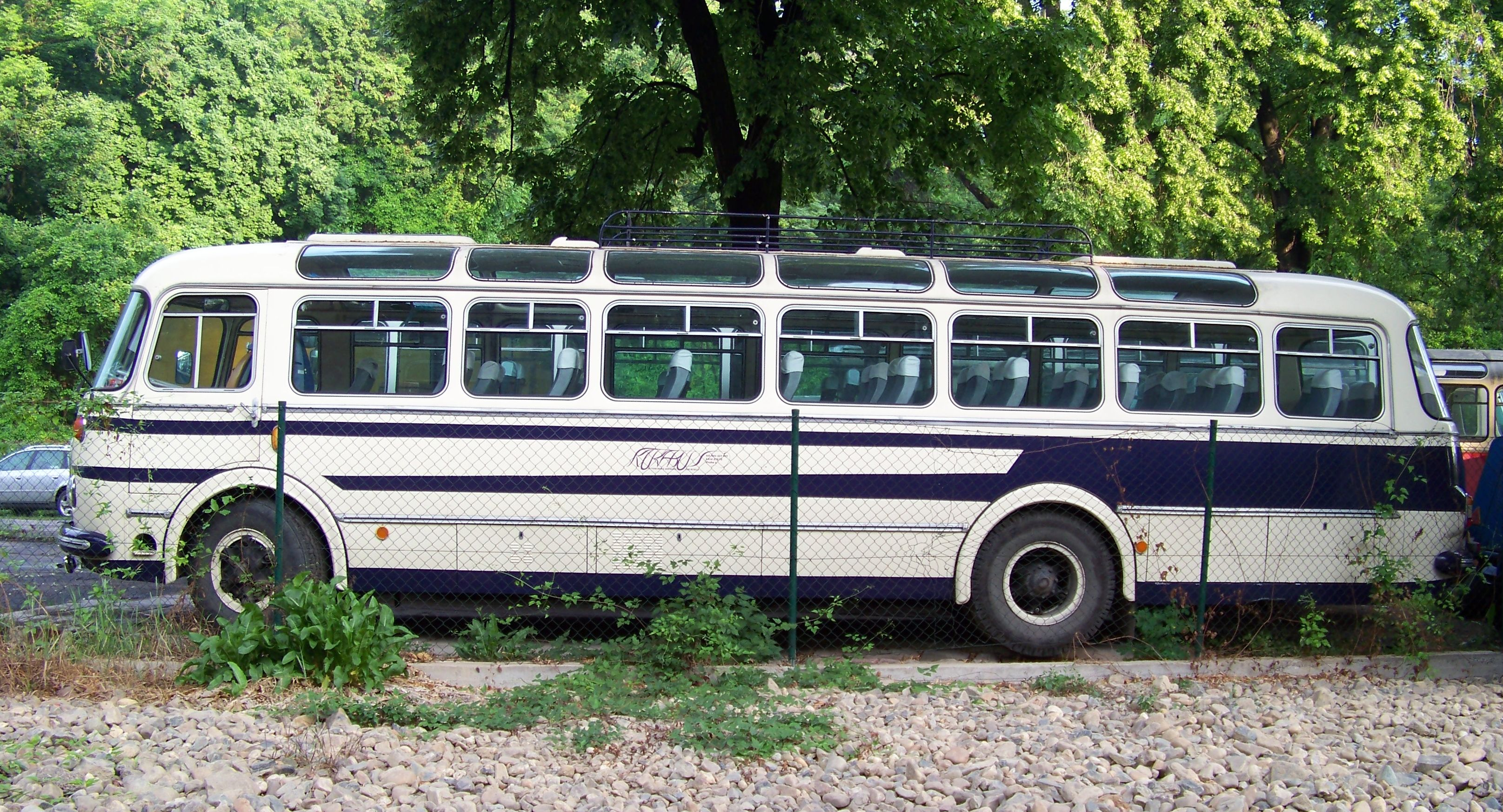 Hlubočepy, Prague, the Czech Republic. Buses of Jan Kukla.